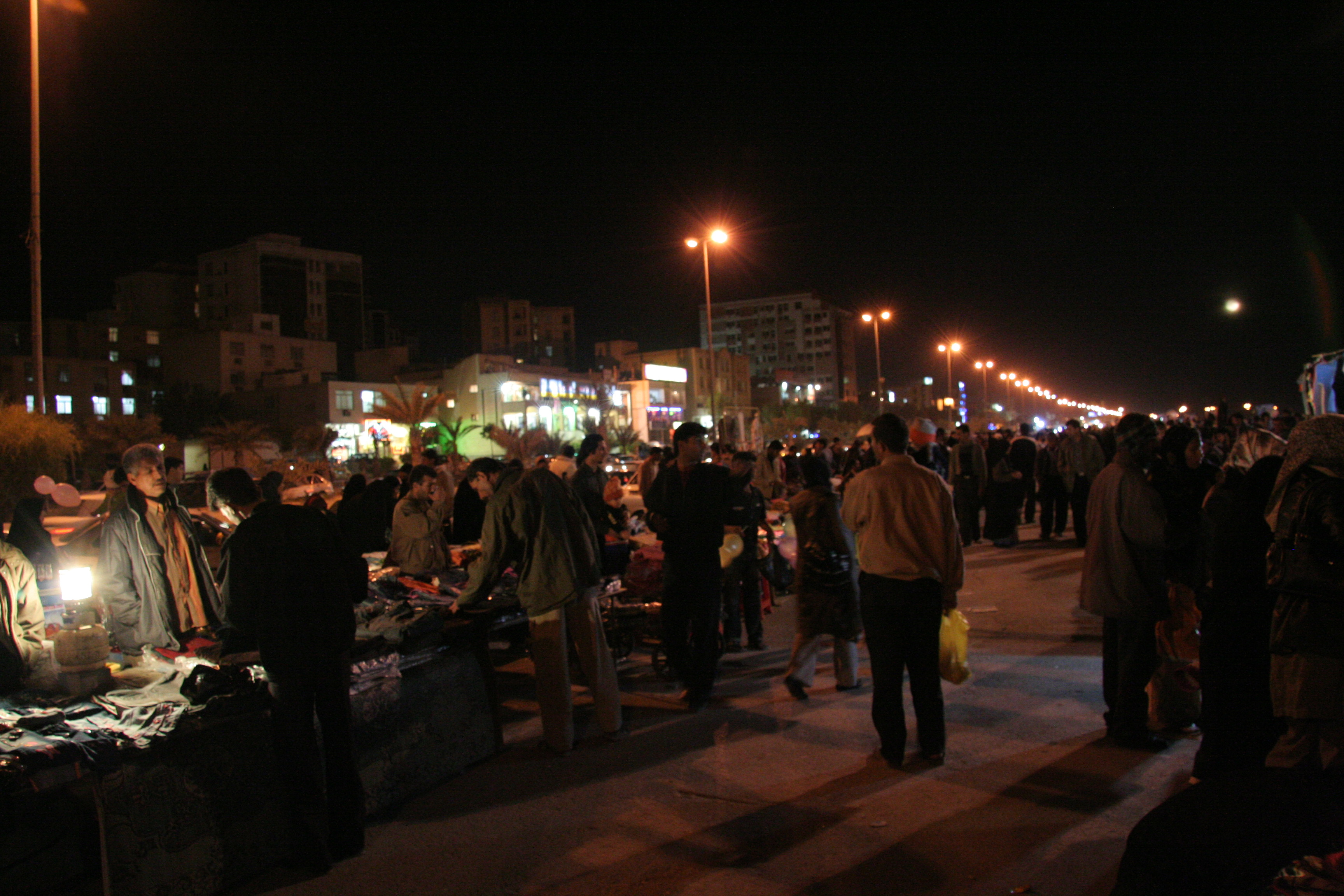 Bandar Abbas, Iran